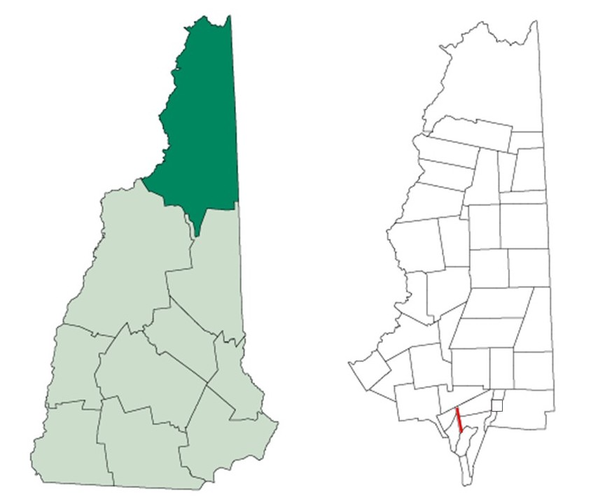 Map of Coos county, New Hampshire, highlighting the location of Chandler's Purchase, a township.